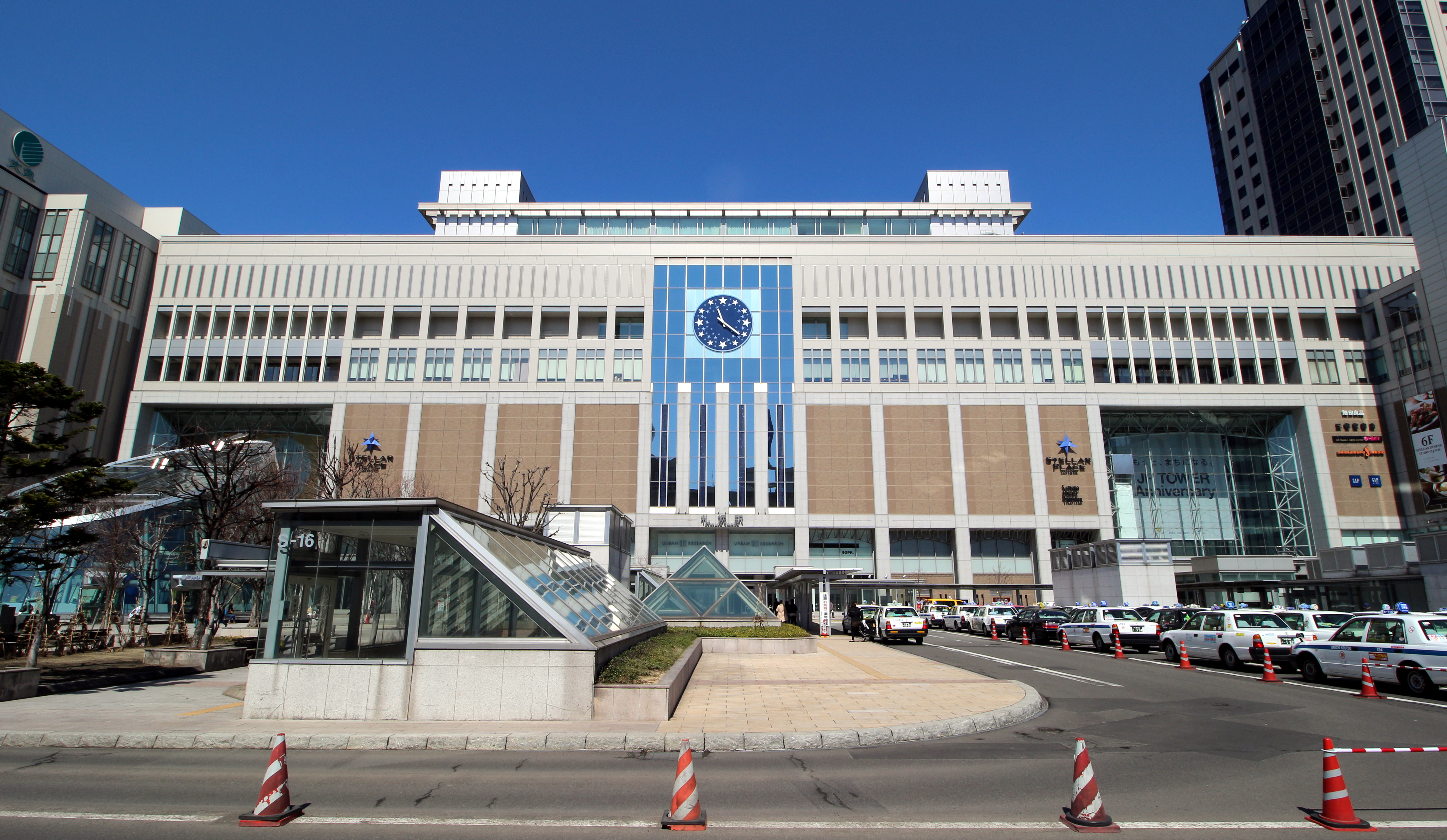 Stellar Place Sapporo, commercial complex in Sapporo, Hokkaido.